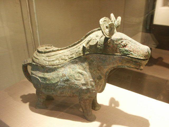 A bronze animalistic gong vessel from the tomb of Lady Fu Hao, Chinese Shang Dynasty, 13th century BC